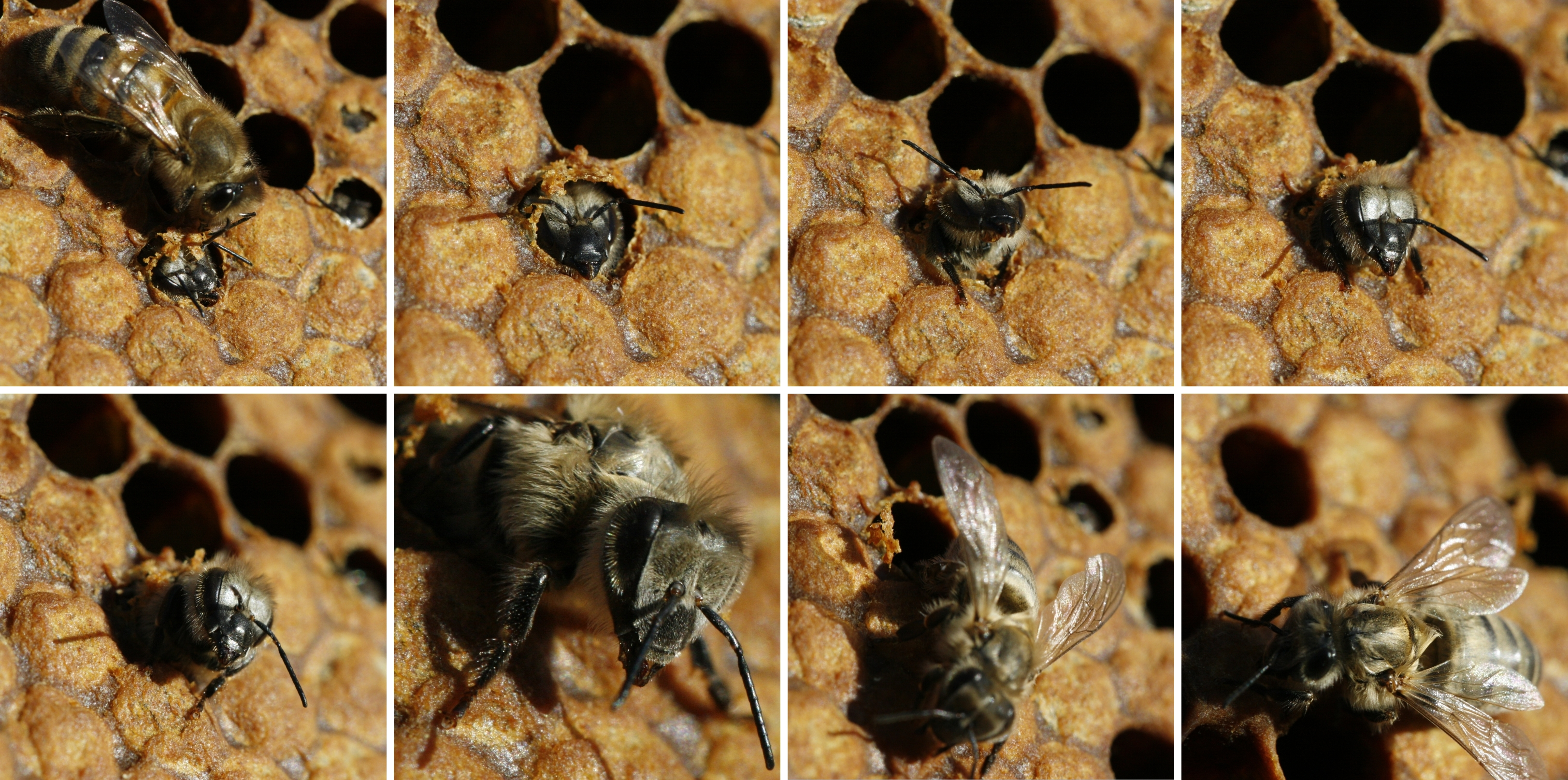 (fr)Naissance d'une abeille noire (Apis mellifera mellifera) (en)Birth of black bee (Apis mellifera mellifera)